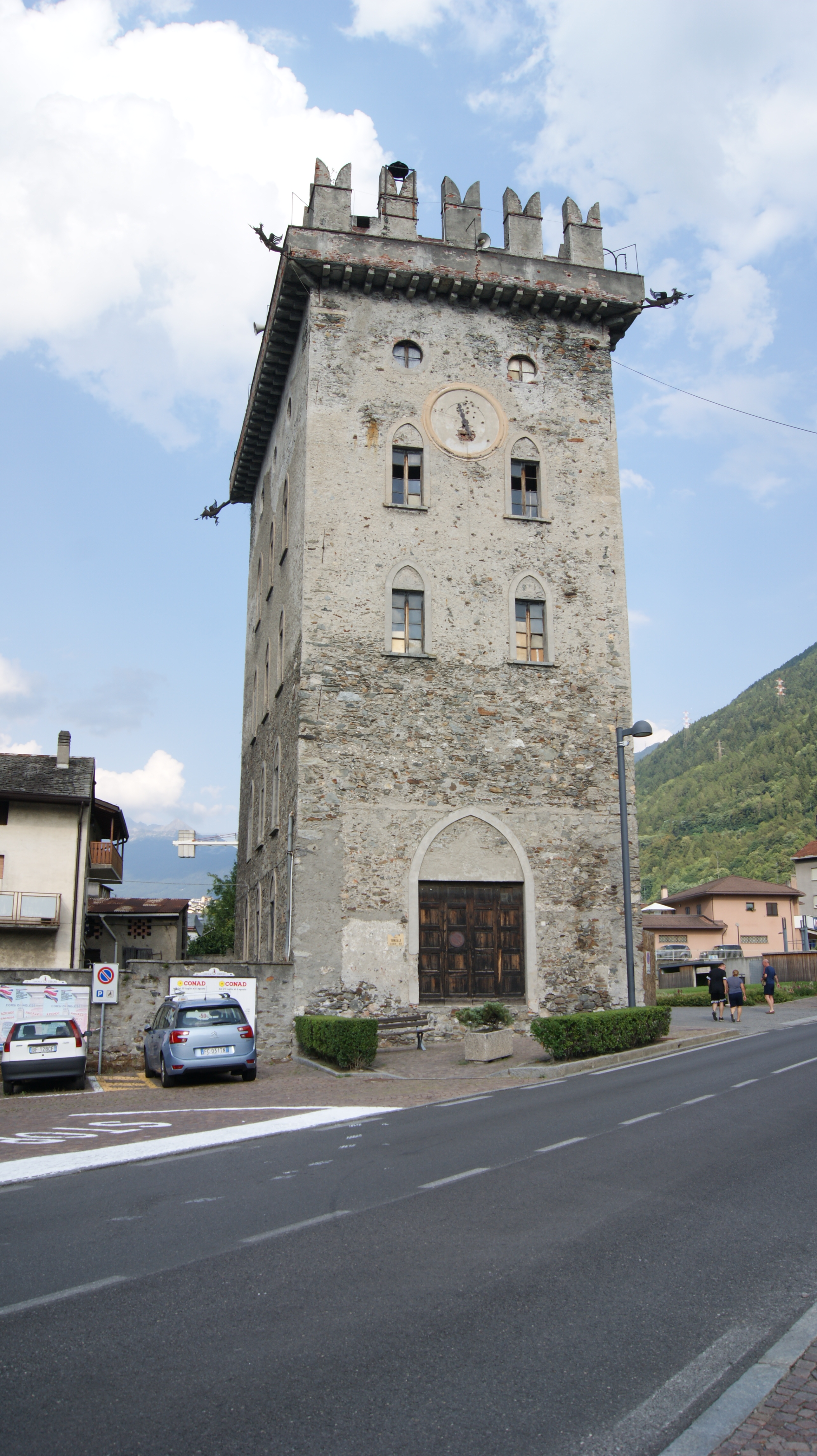 Tirano, Torre Torelli, built around 1810.